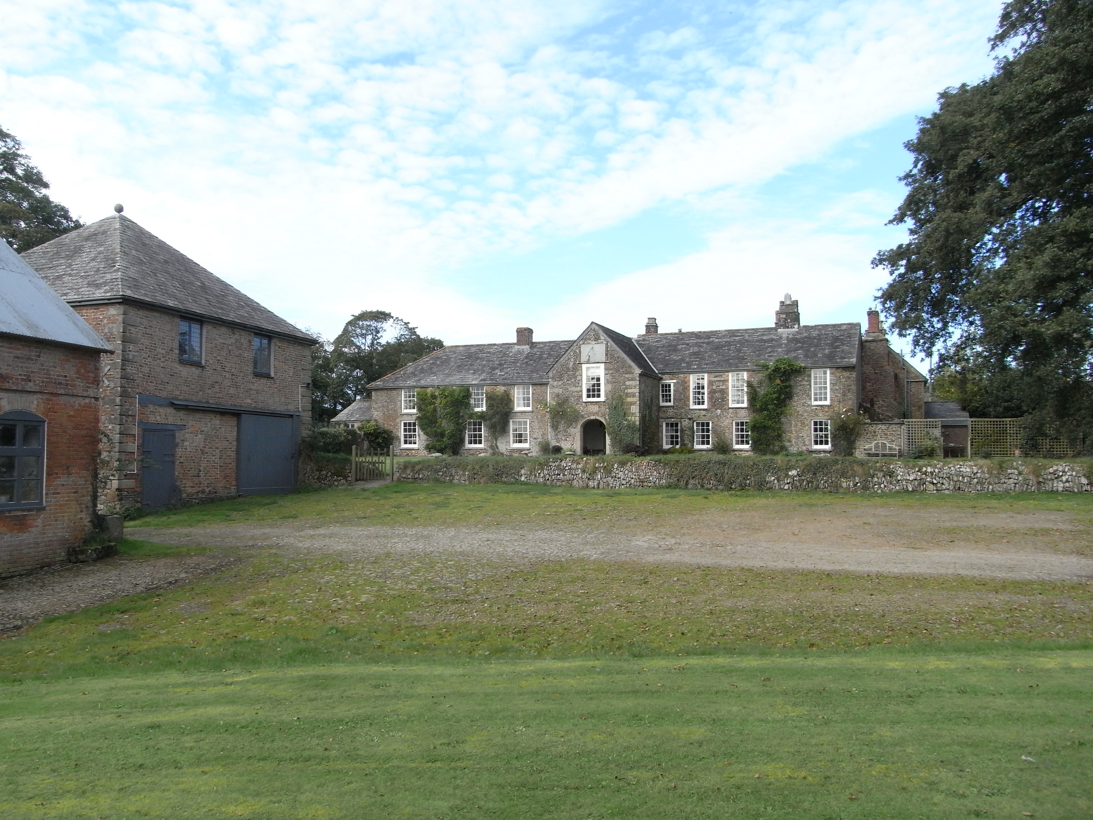 Tetcott Manor House, looking northward